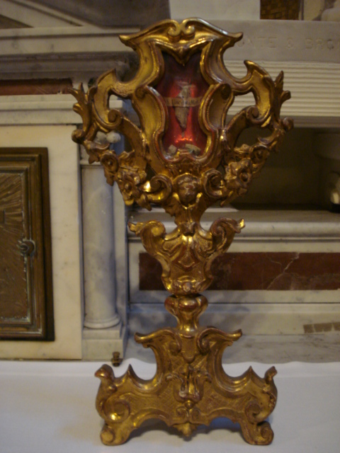 Photographic image of bone reliquary taken in 2010 at St. Joseph's Church, 5v Monroe St., Manhattan, NY